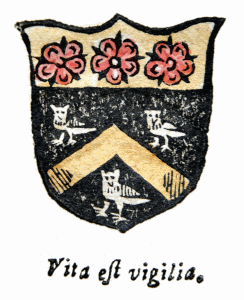 Small handcoloured print of the Arms of Hugh Oldham, Bishop of Exeter, 1504–1519